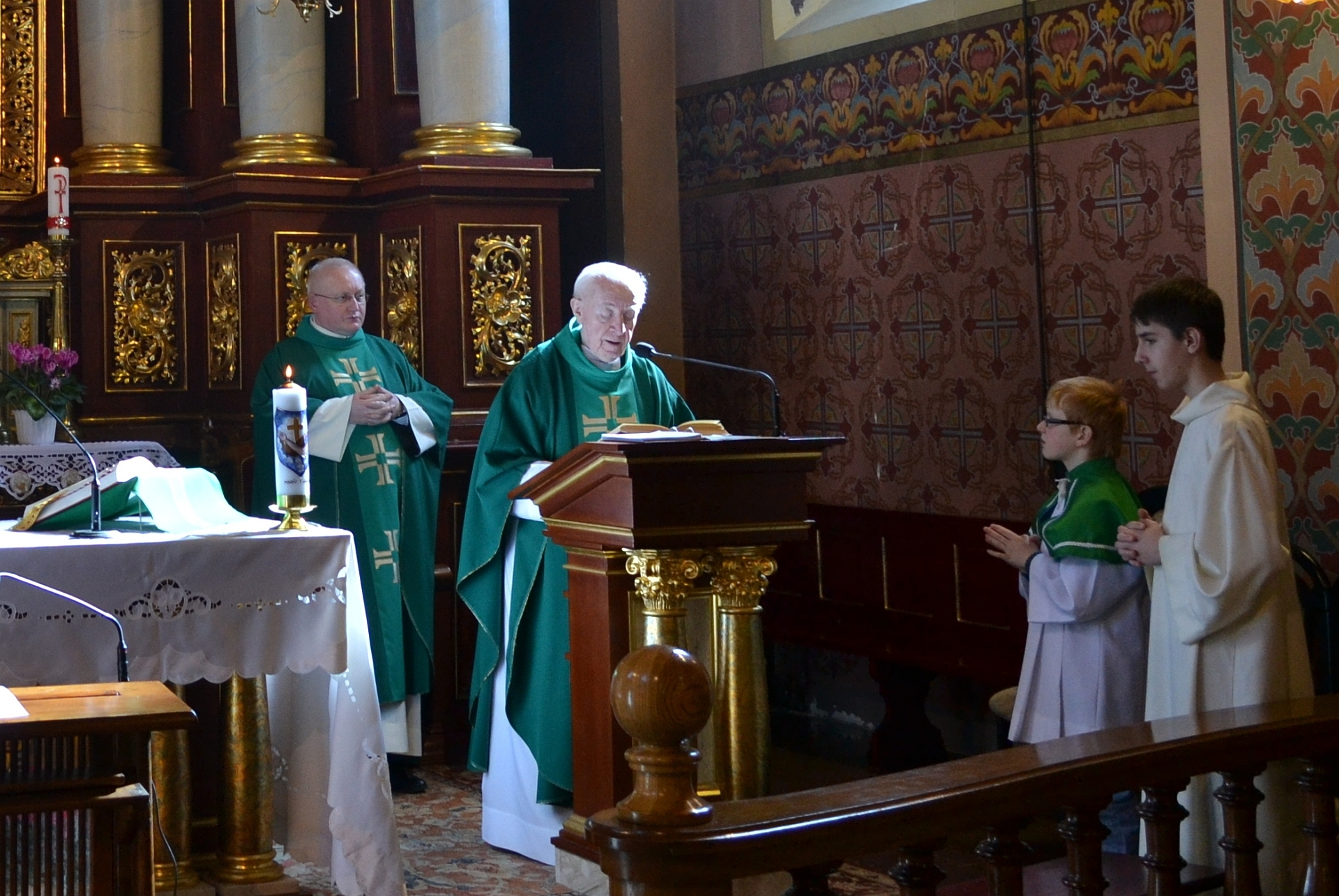 Andrzej Tadeusz Deptuch OFMConv.